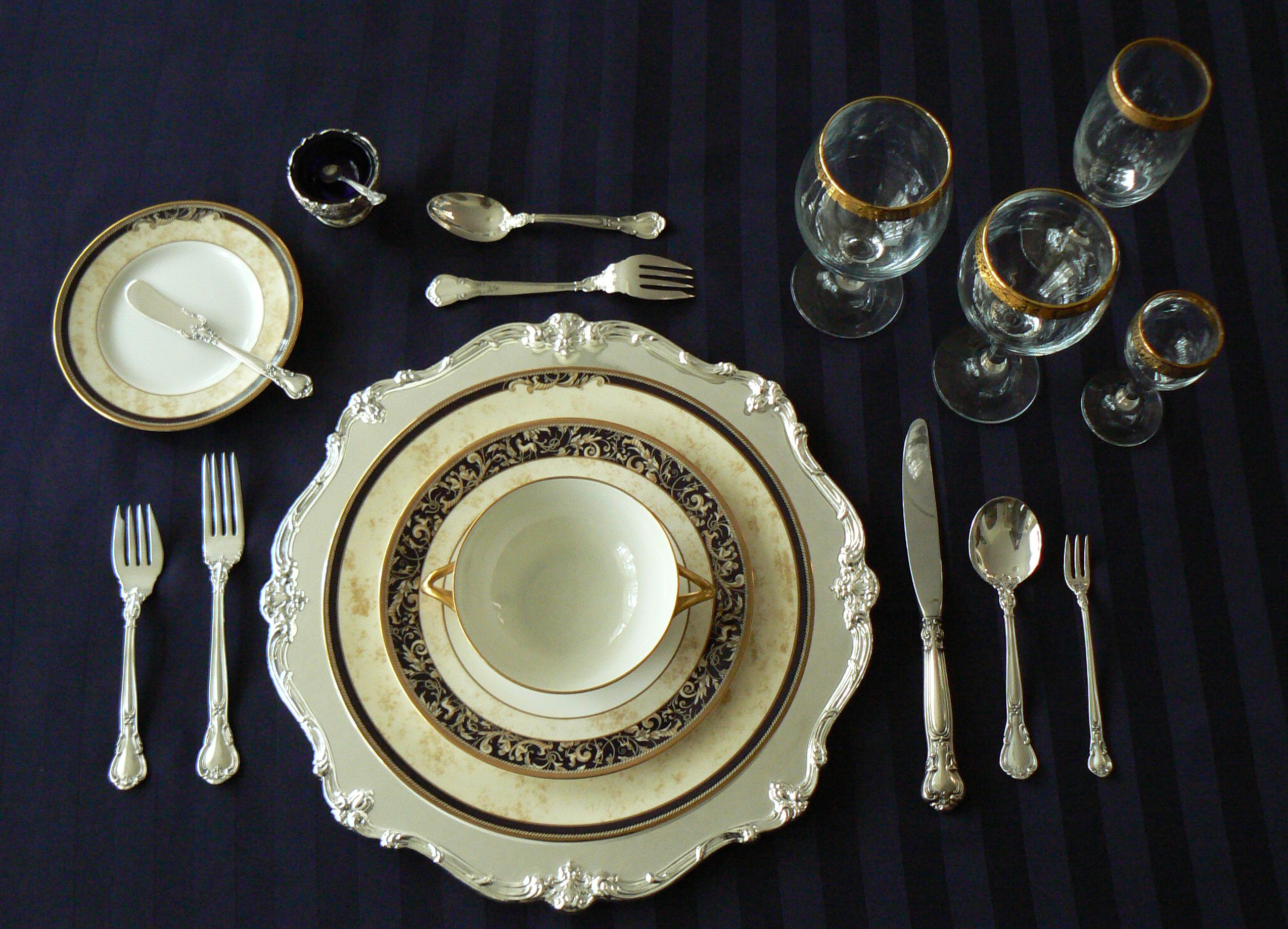 Semi-formal place setting.